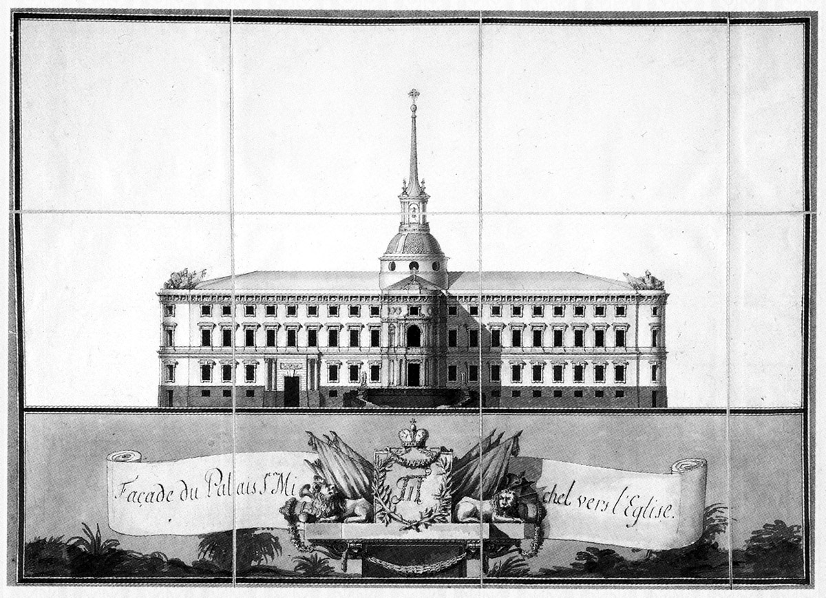 Western facade - St. Michael's Castle. Original architect's drawing